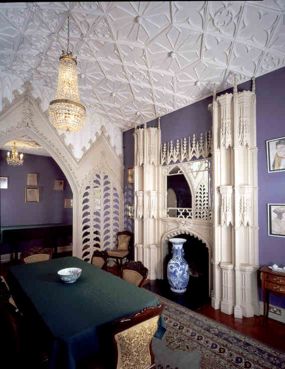 The Holbein Chamber in Horace Walpole's little gothic castle at Strawberry Hill House